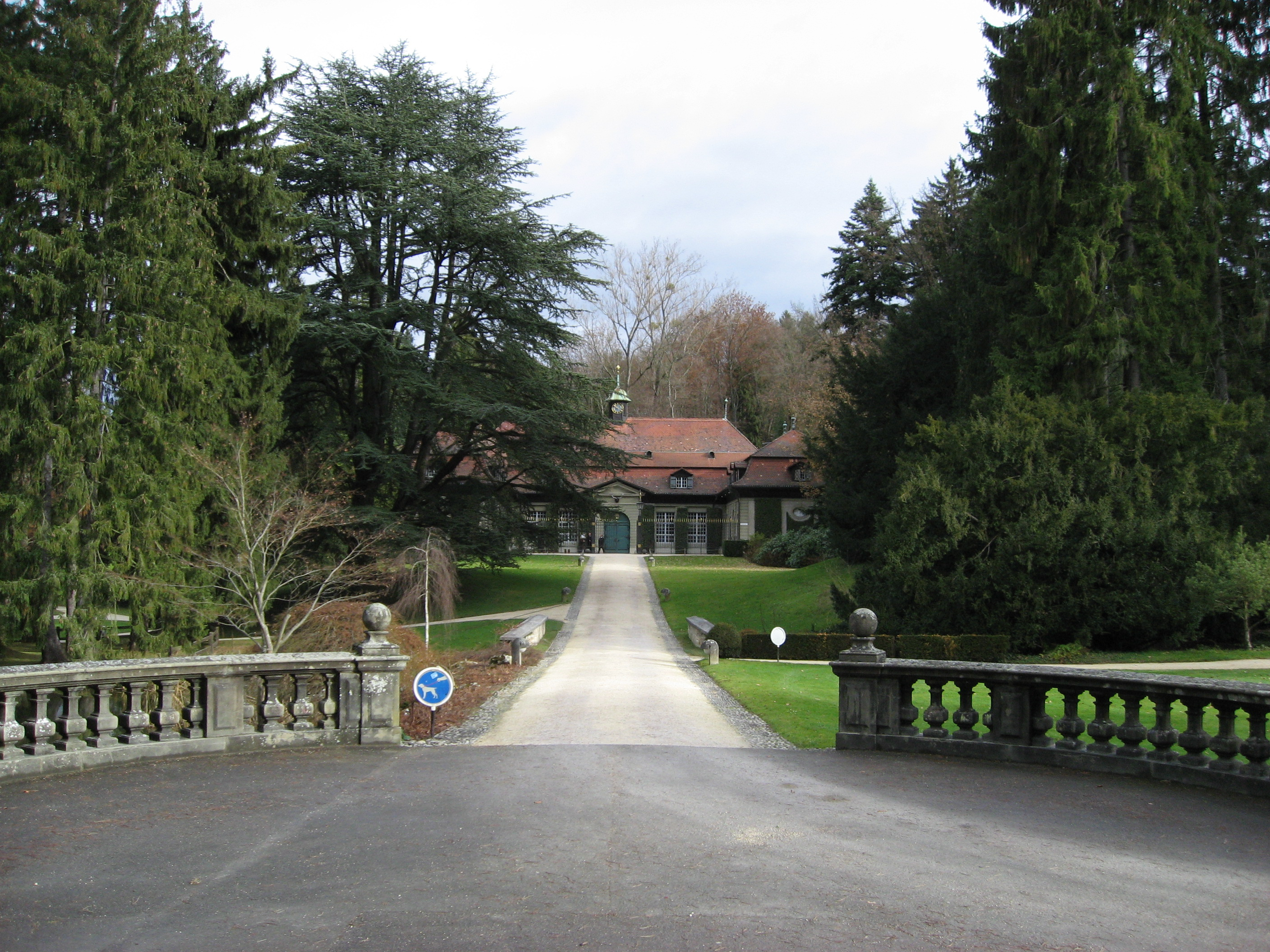 View of a part of the park of Wenkenhof in Basel.